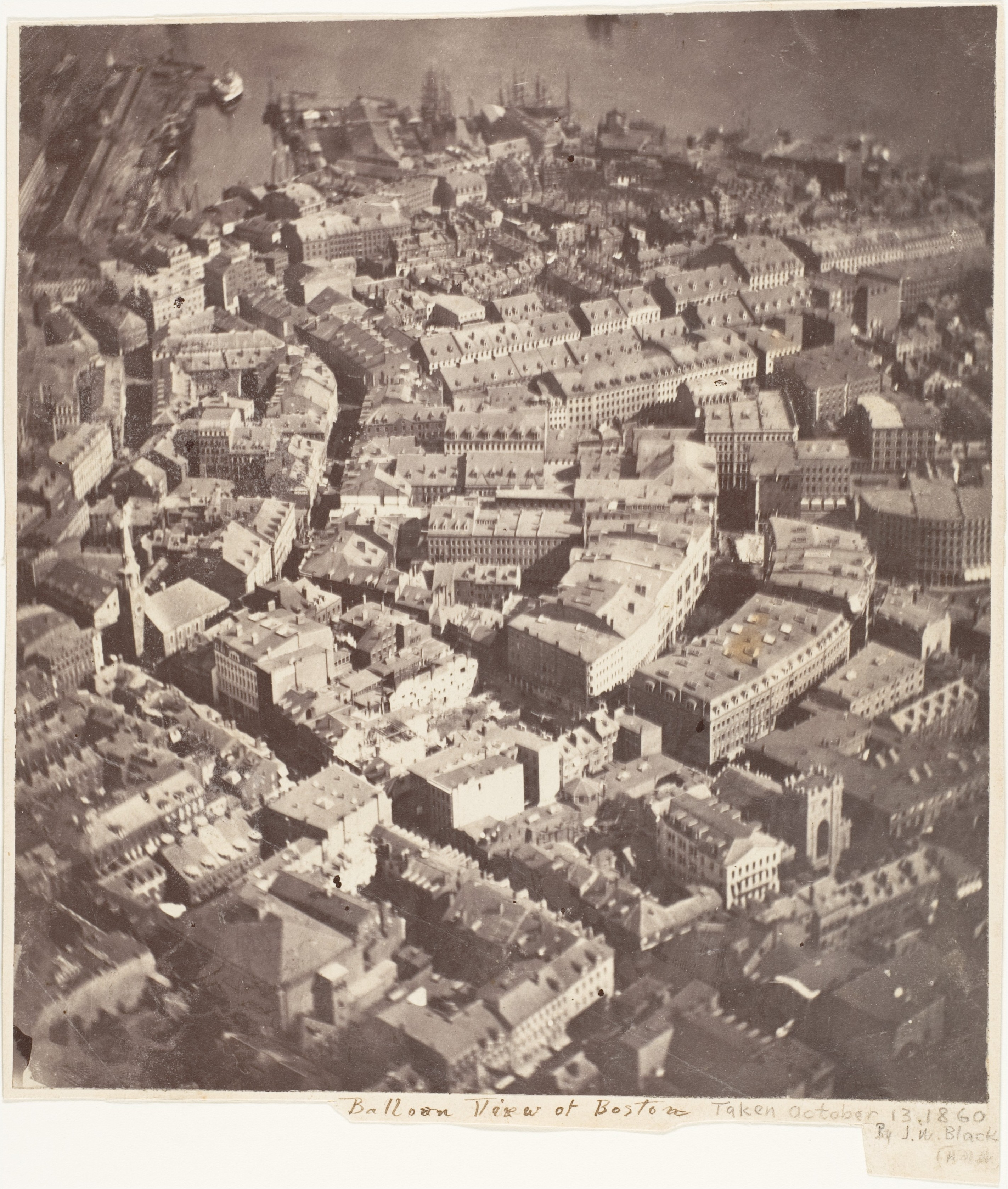 "Boston, as the Eagle and the Wild Goose See It," the first recorded aerial photograph. Depicts area resembling Old South Meeting House; Milk Street; India Wharf, Central Wharf; and vicinity.